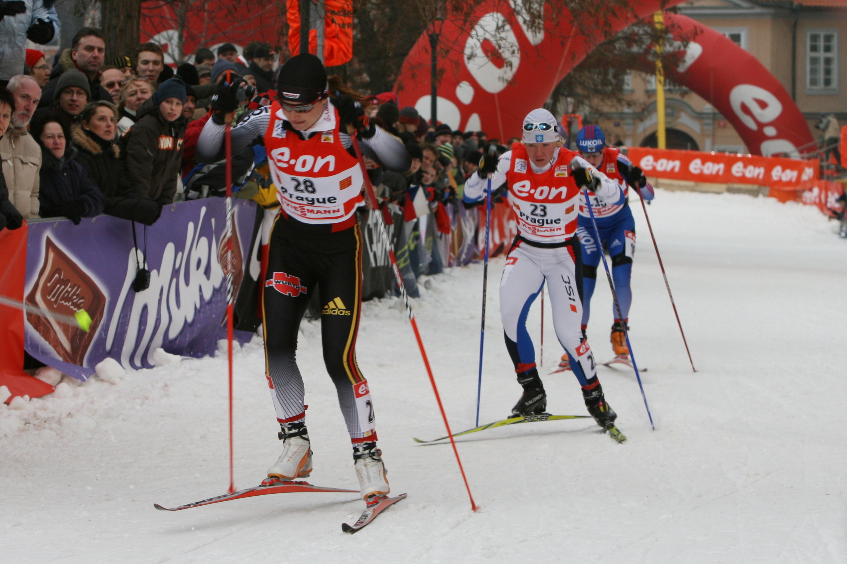 #28 Katrin Zeller and #23 Tatjana Mannima in the quarterfinals of the Tour de Ski in Prague